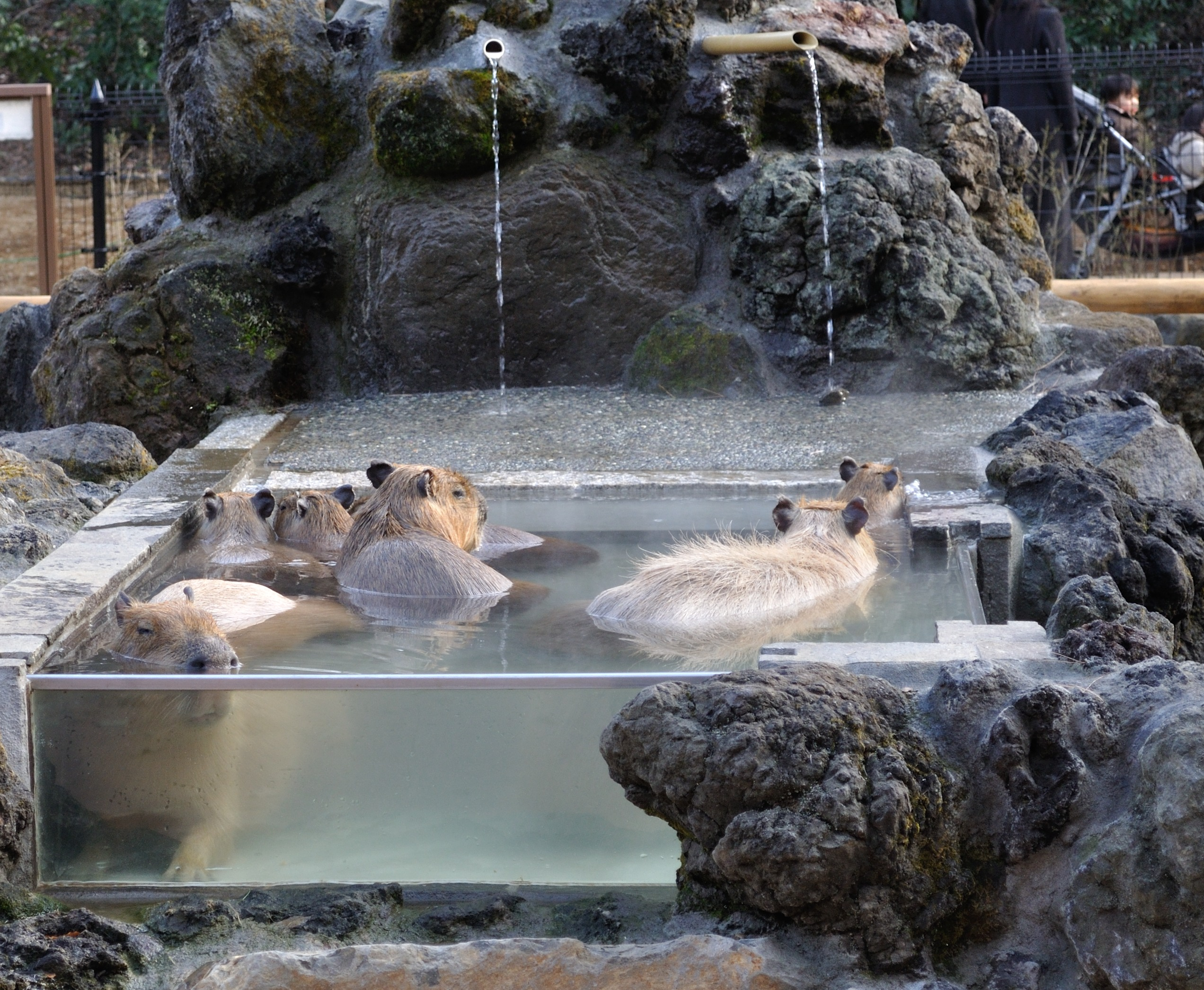 Bathing capybaras in Saitama Children's Zoo in Japan.